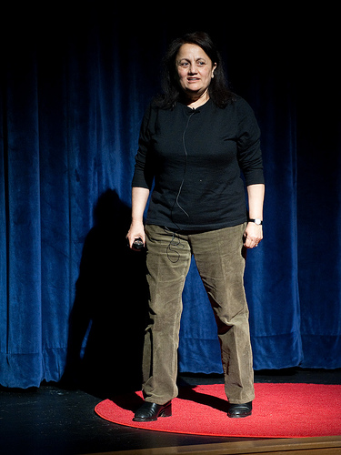 Neeru Khosla; speaker at TEDxNYED, an all-day event designed to bring leading educators, innovators and idealists together to share their vision of education. It was held on 5/6/2010 at the Collegiate School in Manhattan.